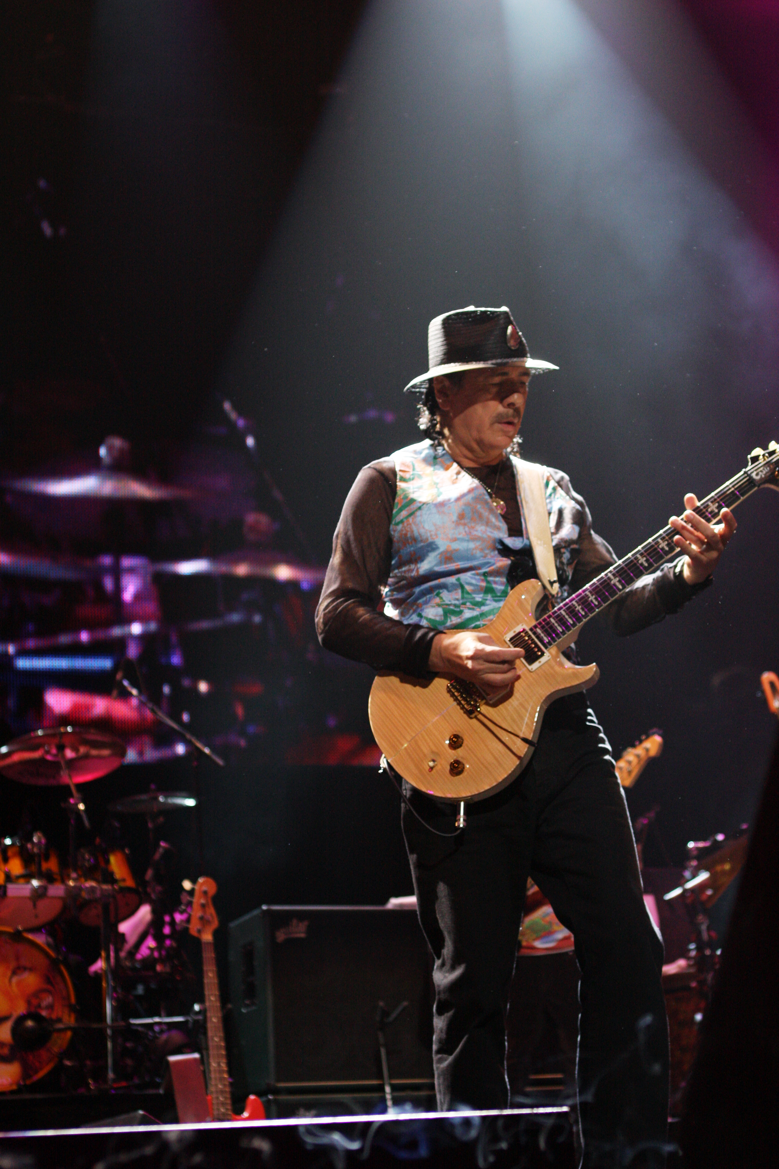 Carlos Santana Acer Arena